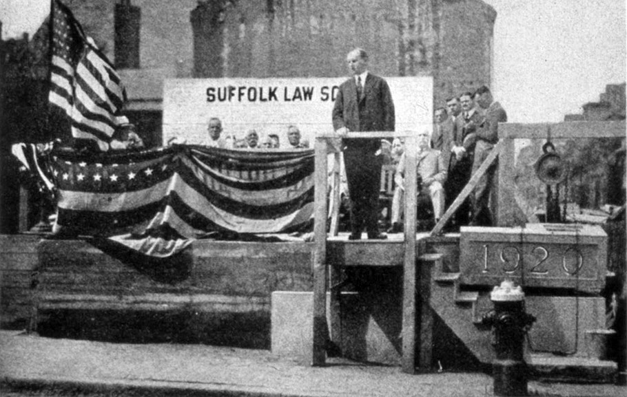 This is a 1920 photo of U.S. President Calvin Coolidge at Suffolk University Law School in Boston, Massachusetts, laying the cornerstone, published by Suffolk.